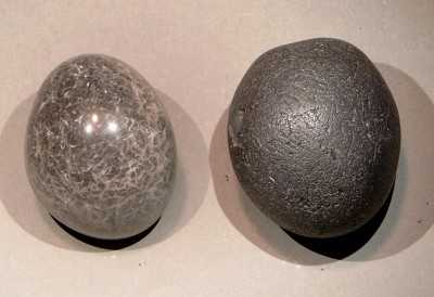 Wallsteine